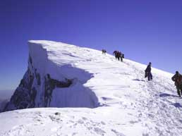 Group of mountaineers on Trem - Winter climb on Trem 2005, Suva planina mountain, Serbia/Ascension du mont Trem, Suva Planina, Serbie